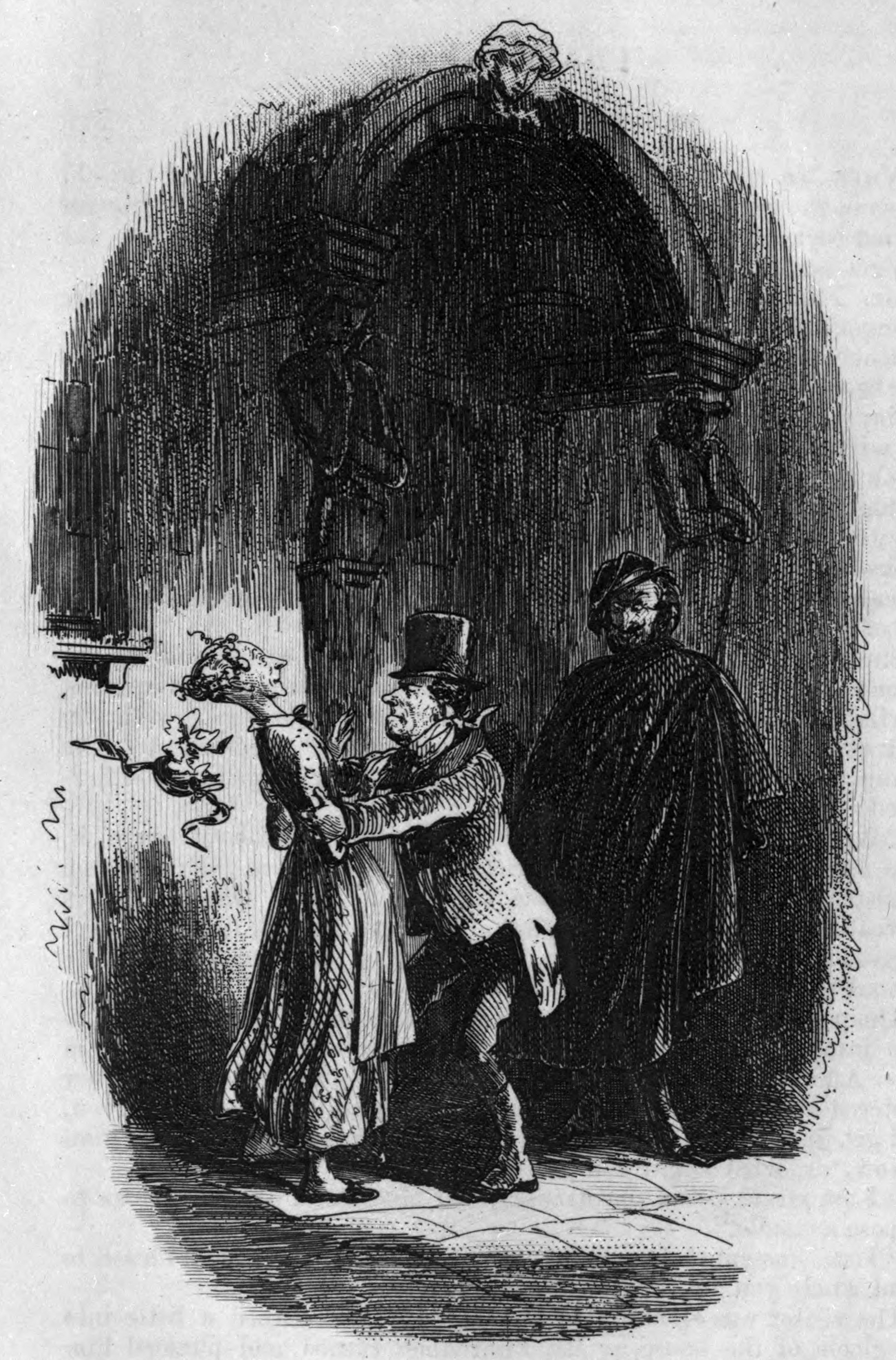 Illustration from the first edition of Little Dorrit by Charles Dickens. See filename for original image title.